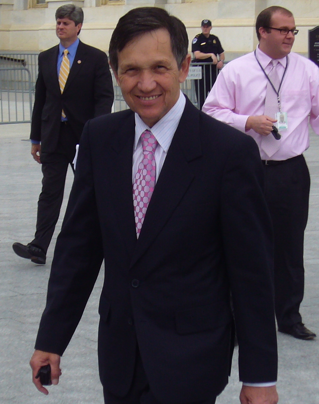 Dennis Kucinich Created by user and released into the public domain.